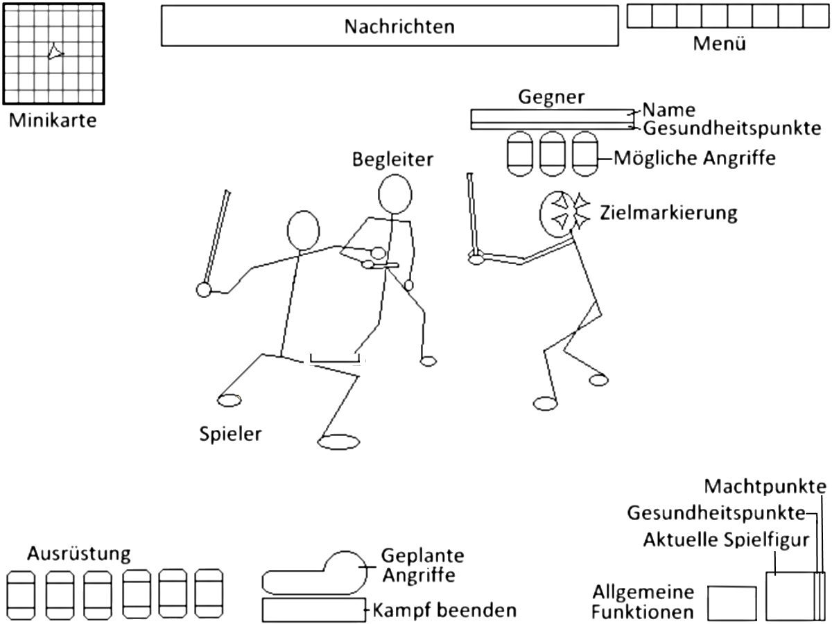 Interface of the video game Star Wars: Knights of the Old Republic II